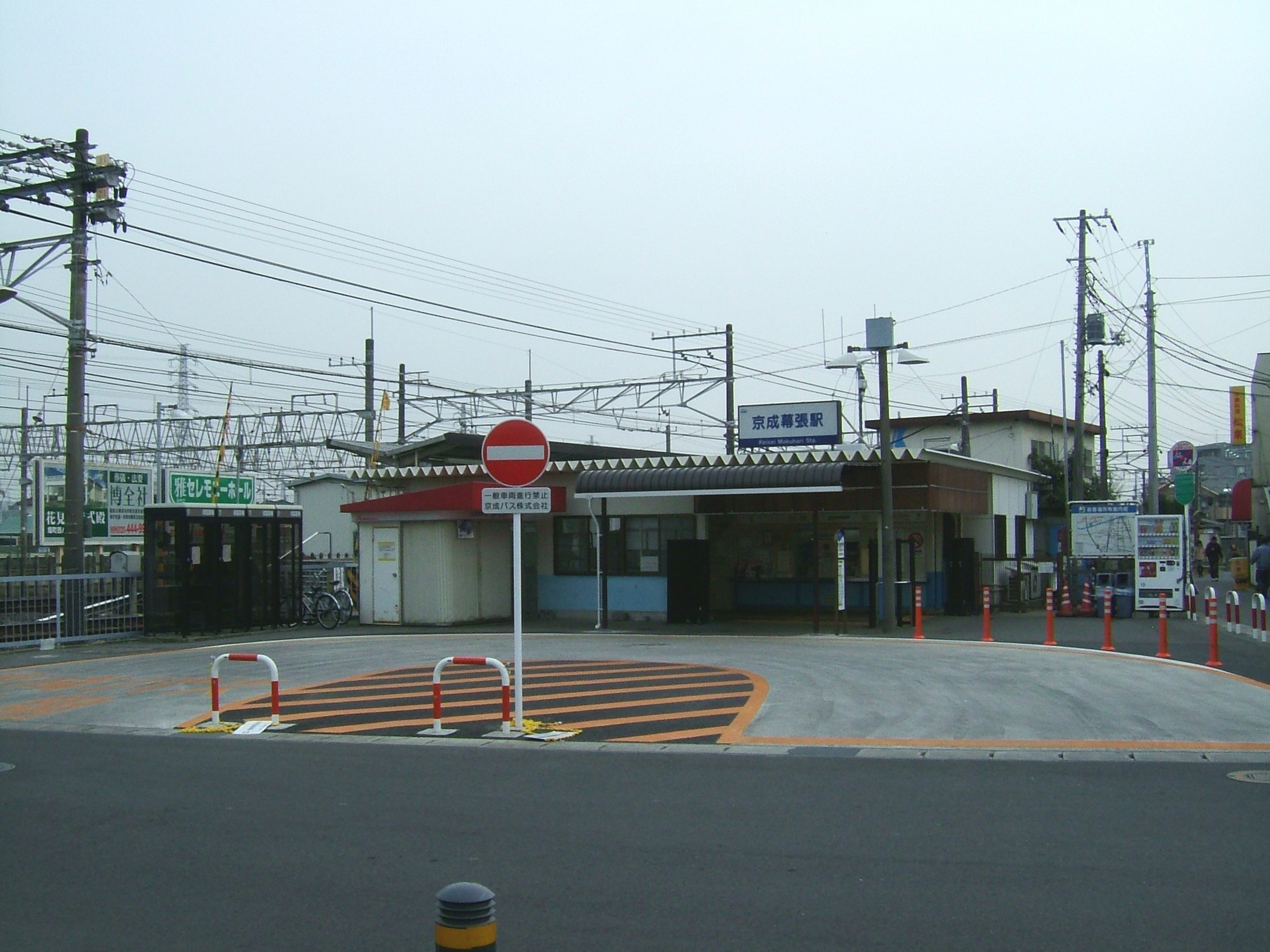 Keisei-Makuhari Station, Keisei Chiba Line